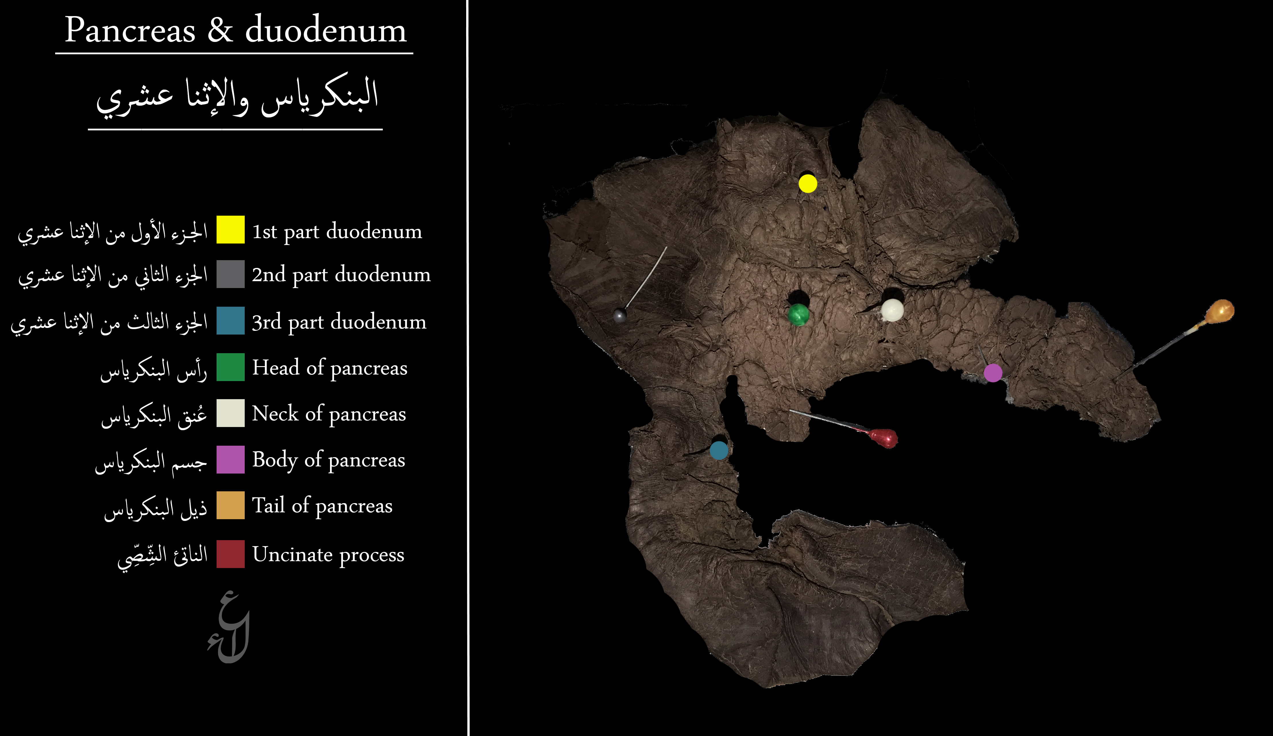 Pancreas and duodenum in human body